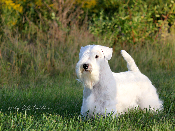 Sealyham Terrier Int Ch, S Ch, N Ch, DK Ch, FIN Ch, US Grand Ch, Montgomery Winner Forlegd Zazzy Severus